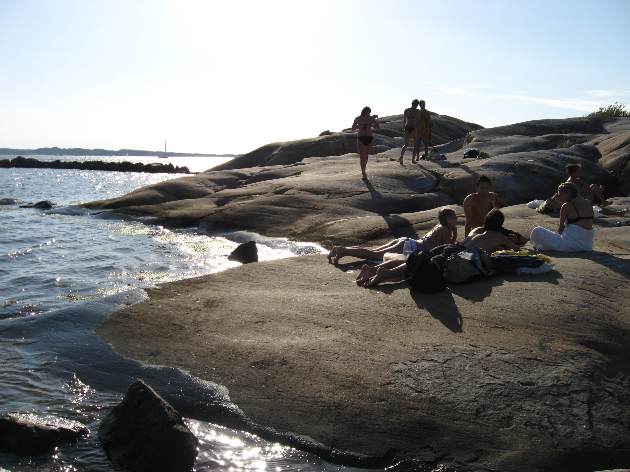 On hot days a lot of people take the tram to Saltholmen where there are swimming places on the coast. Swimmers drying in the evening sun.